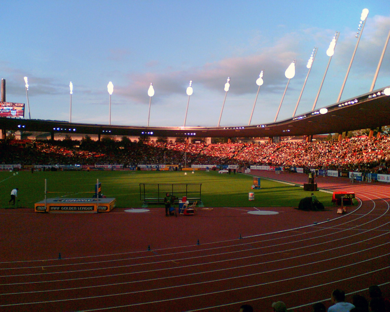 Annual athletics meeting Weltklasse Zürich in the new stadium Letzigrund before the opening ceremony